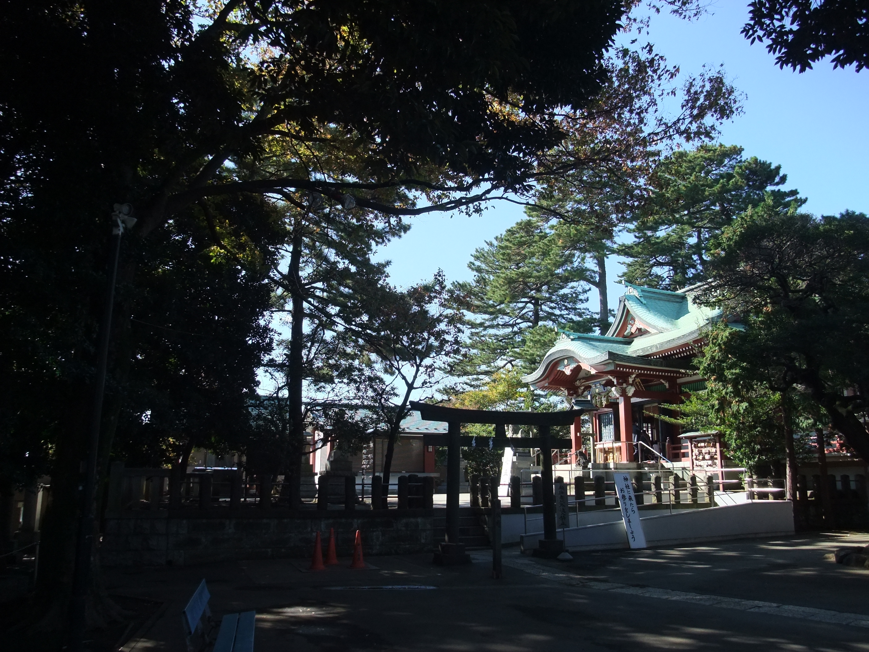 Seta Tamagawa Shrine (瀬田玉川神社) on the Site of Tamagawa Shrine Tumulus (玉川神社古墳)